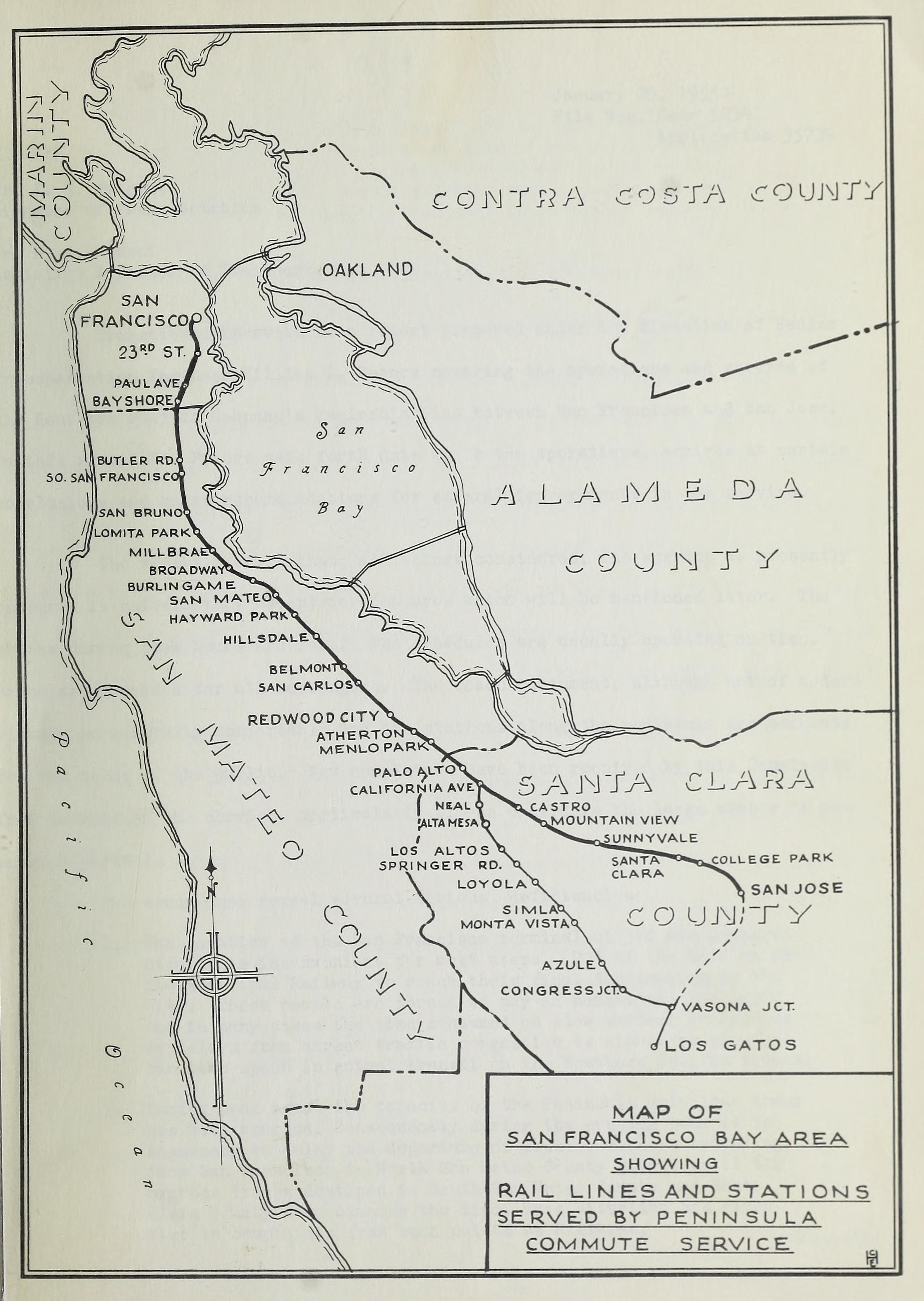 Map showing Peninsula Commute operated by Southern Pacific Transportation Company in 1955. As described in the text: 'The frontispiece map indicates the general area served by the Peninsula Line together with the location of all stations. The main double track line between San Francisco and San Jose is shown by a heavy black line, while the single track, Los Gatos - Los Altos Branch, is shown by a light line. The dotted line indicates non-stop trackage used by the Los Gatos Branch train in operating to and from the yards at San Jose.'